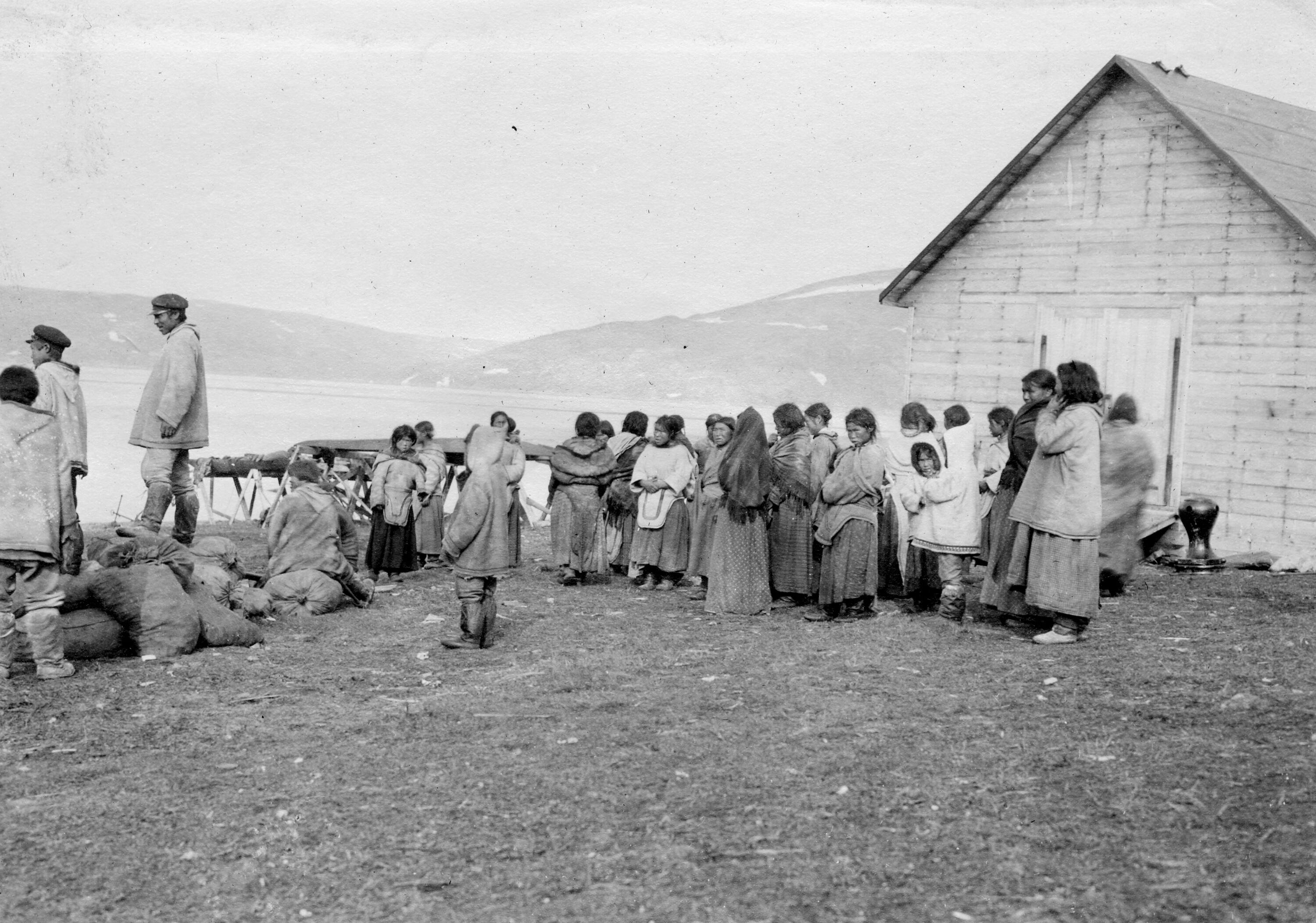 Photograph, Revillon Freres post servants at Kangiqsujuaq (Wakeham Bay), QC, 1909, Hugh A. Peck, Silver salts - Gelatin silver process - 10.4 x 15.8 cm